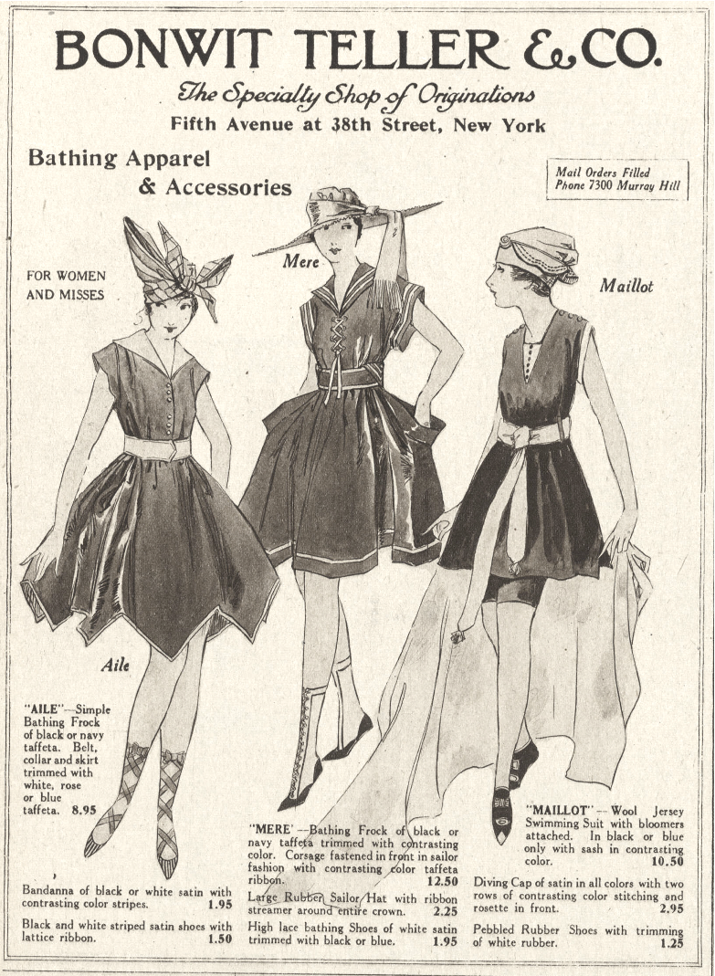 Contemporary 1916 bathing apparel, showcasing (among two others) the maillot style of bathing apparel. At the time, the term maillot was used to describe tight-fitting, one-piece swimsuits such as the one pictured.